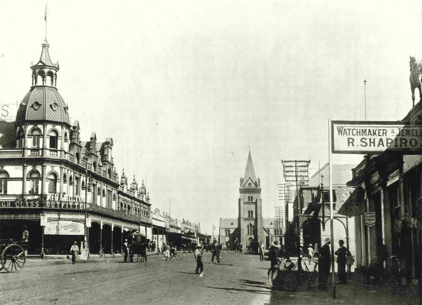 Church street, Pretoria, in the 1890s